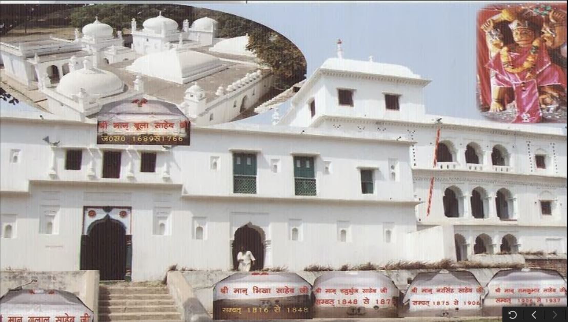 one of the oldest math in Ghazipur Uttar Pradesh